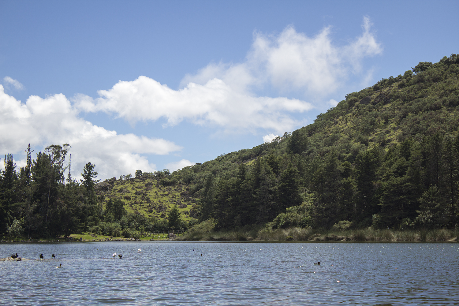 Front view of the lagoon and the forest